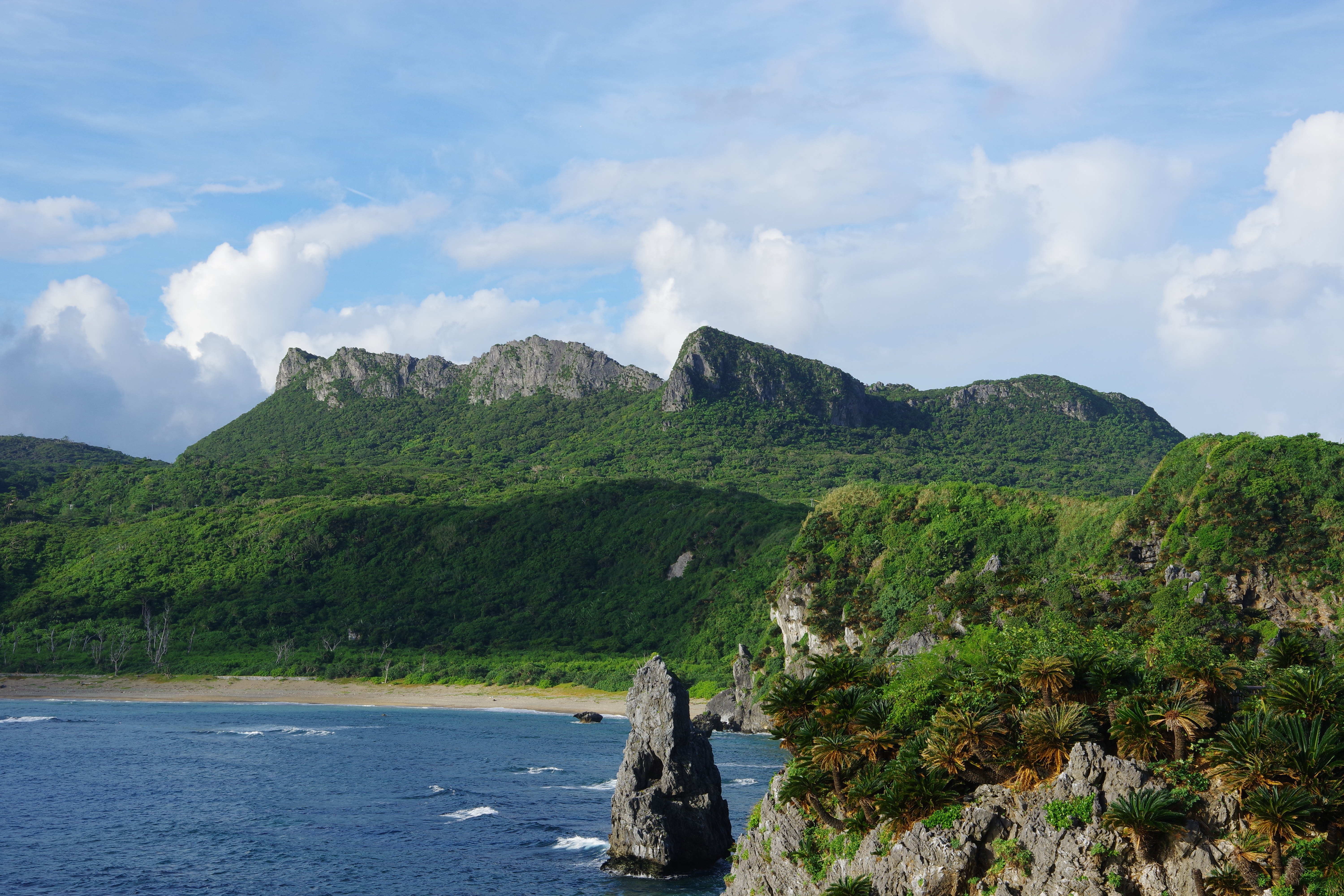 Mount Hedo (Hedo Utaki) seen from the Cape Hedo, Okinawa Prefecture, Japan